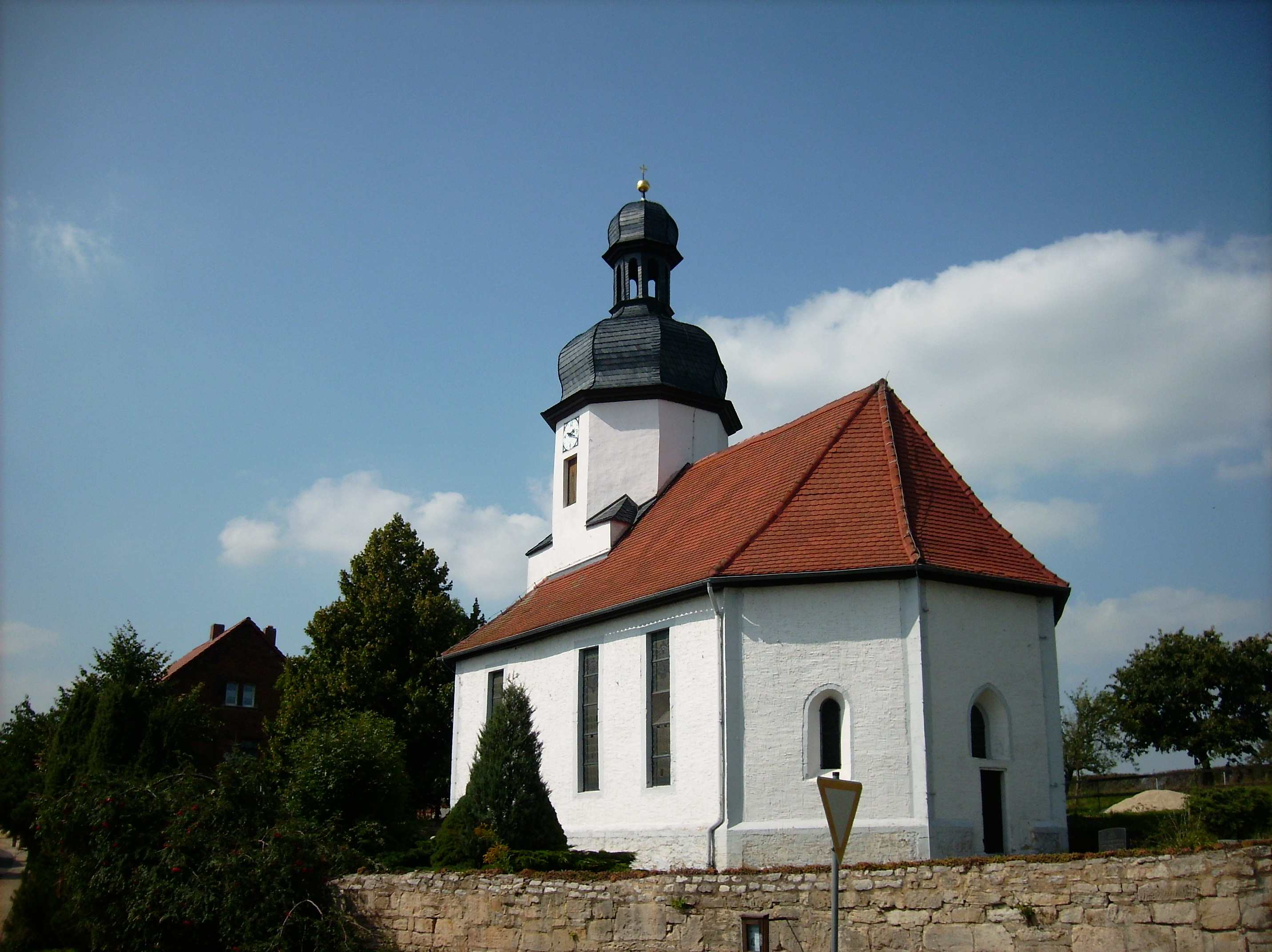 Church of the village of Heiligenkreuz (Naumburg, district of Burgenlandkreis, Saxony-Anhalt)